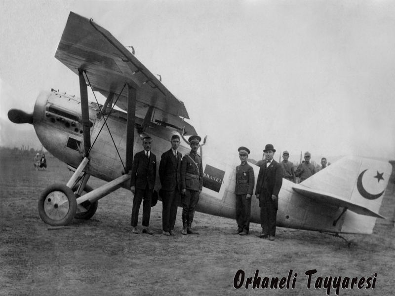 Dewoitine D.21 (not Caudron C-59) "Orhaneli"